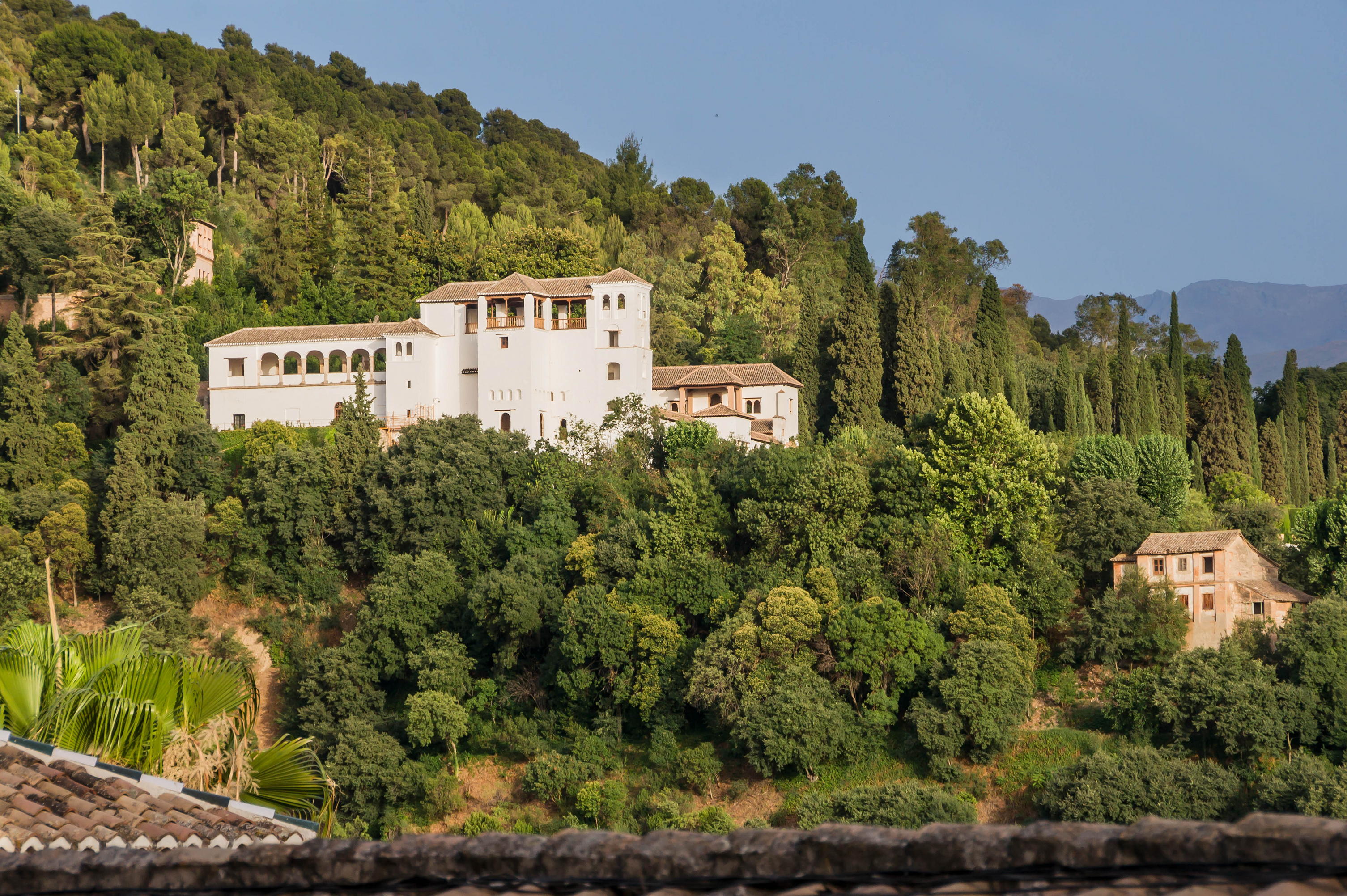 Generalife palace, seen from Albayzin neighborhood, Granada, Spain.